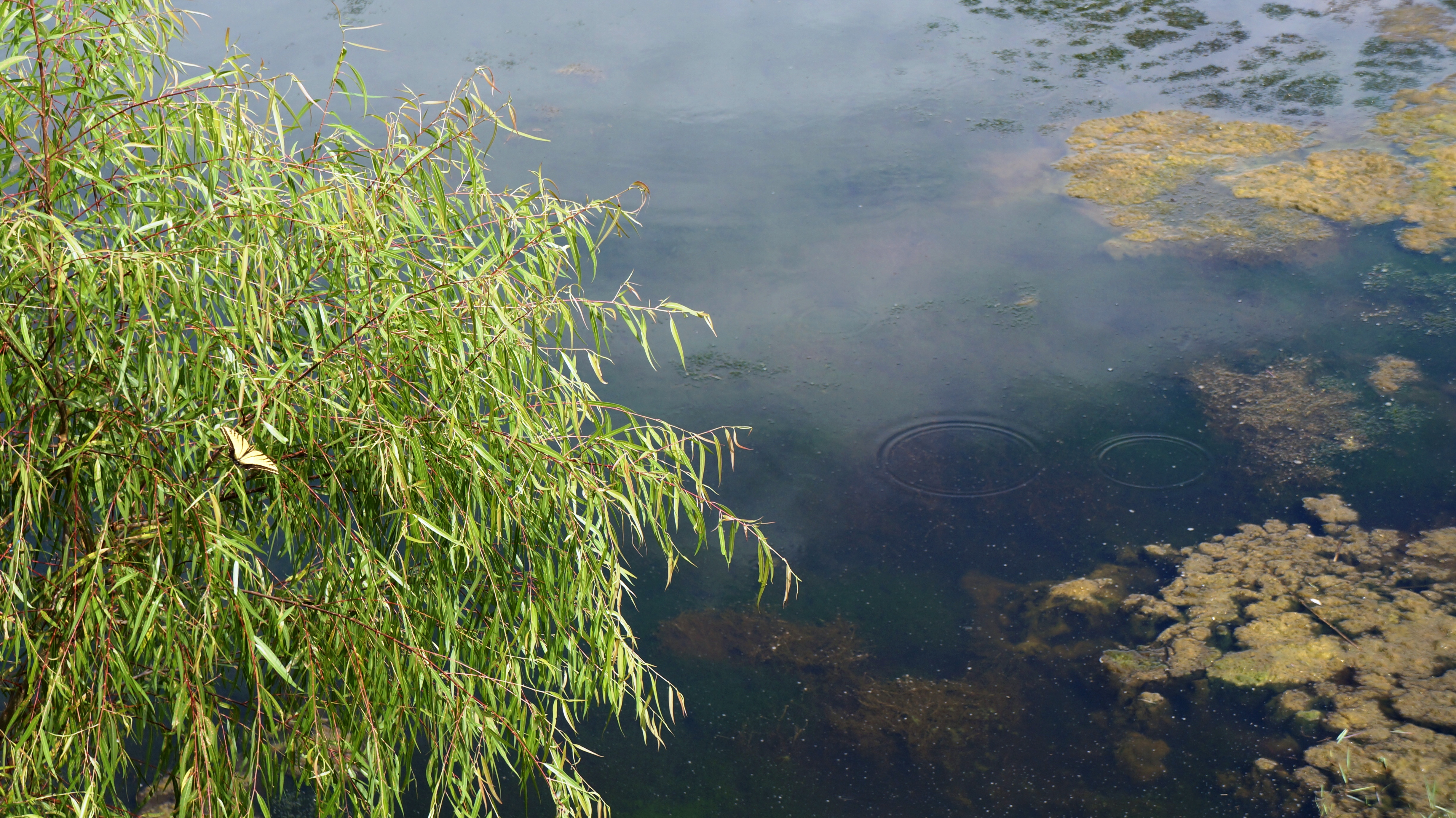 Pleasant pool full of life in the north of Jalisco